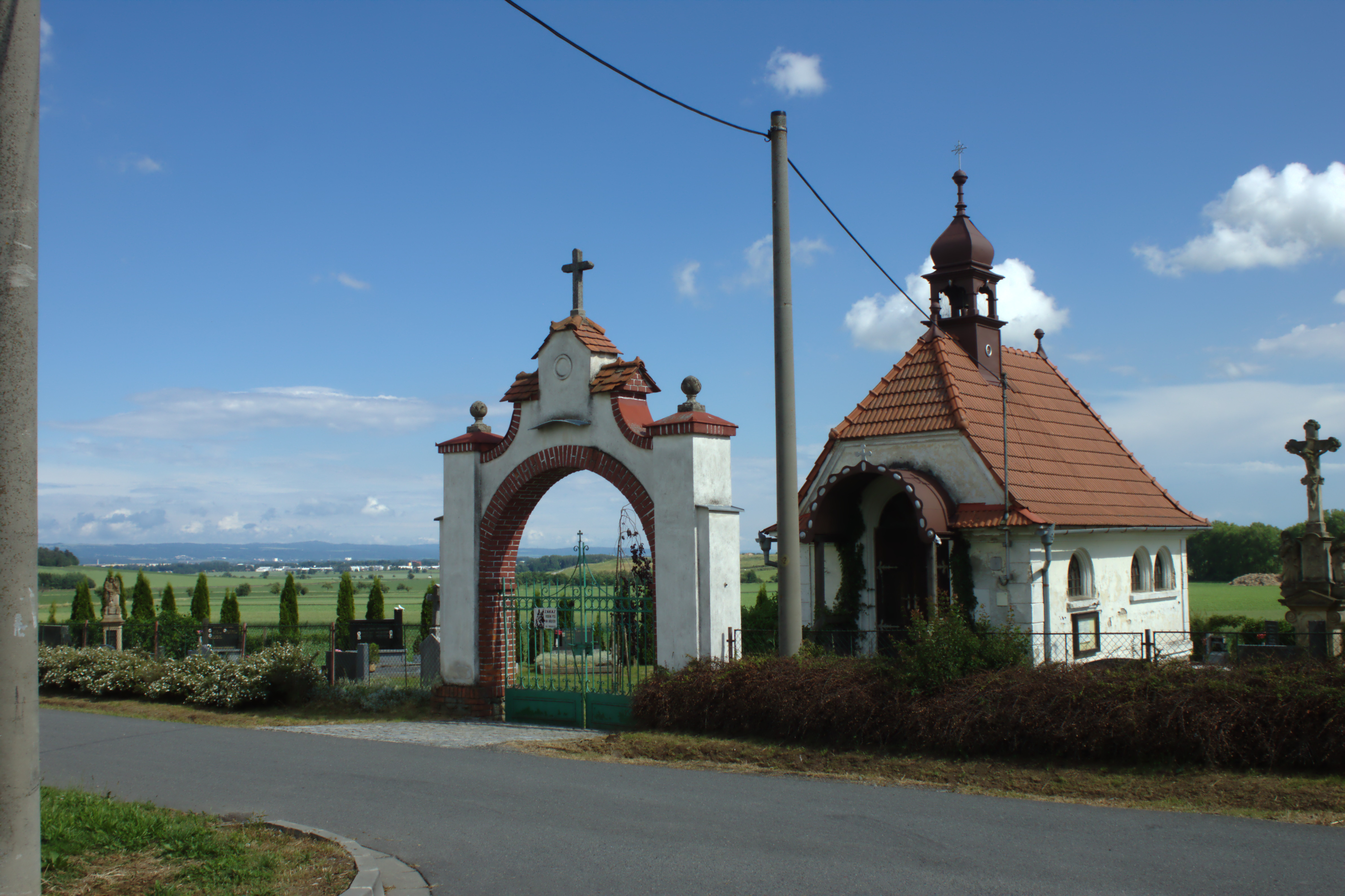 A chapel in the village of Dědinka, Olomouc Region, CZ